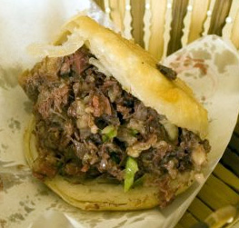 The donkey burger is a famous local specialty food in Baoding China.